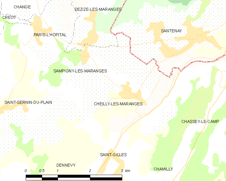 Map of French municipality